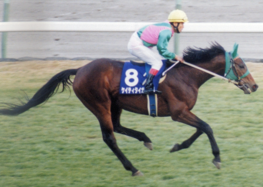 K T Tiger (horse)